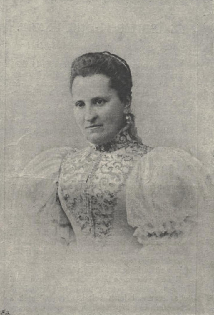 Etelka Pallaviciné Majláth